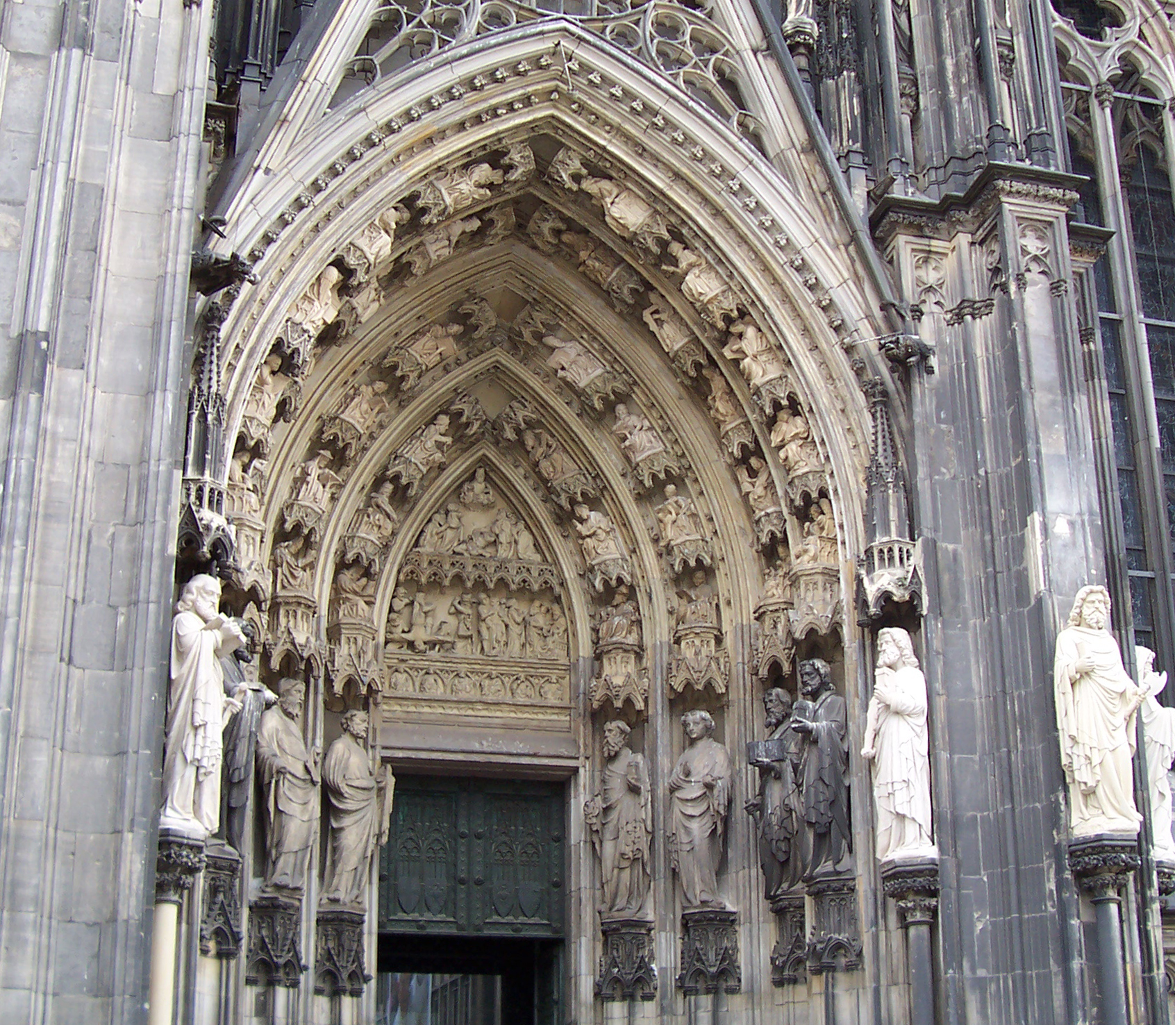 Ornamented gate arch of a Cologne Cathedral entrance. Kölner Dom